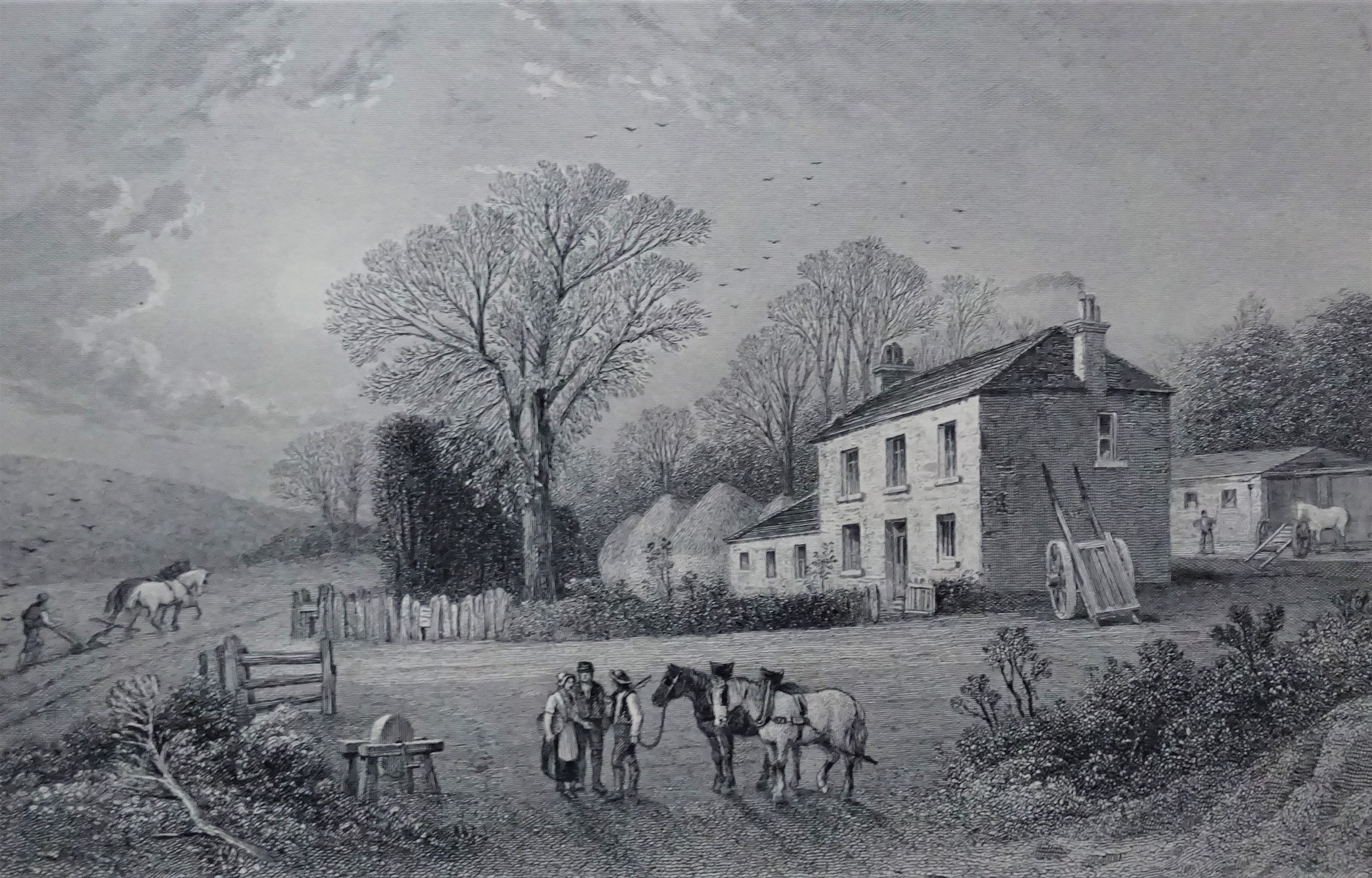 Site of Robert and Gilbert Burns's Mossgiel Farm, Mauchline, East Ayrshire.